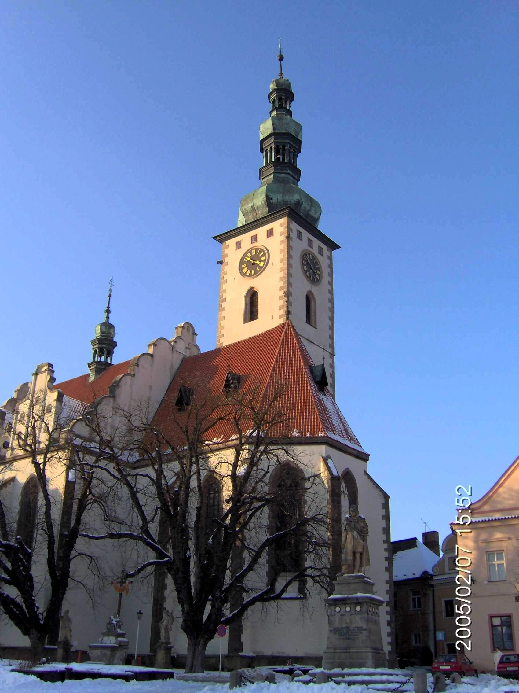 Tábor - Church of the Transfiguration